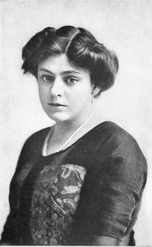 Ethel Barrymore